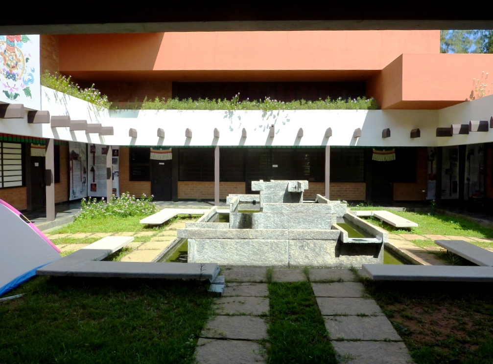 I took this photo on a trip to southern India in 2010